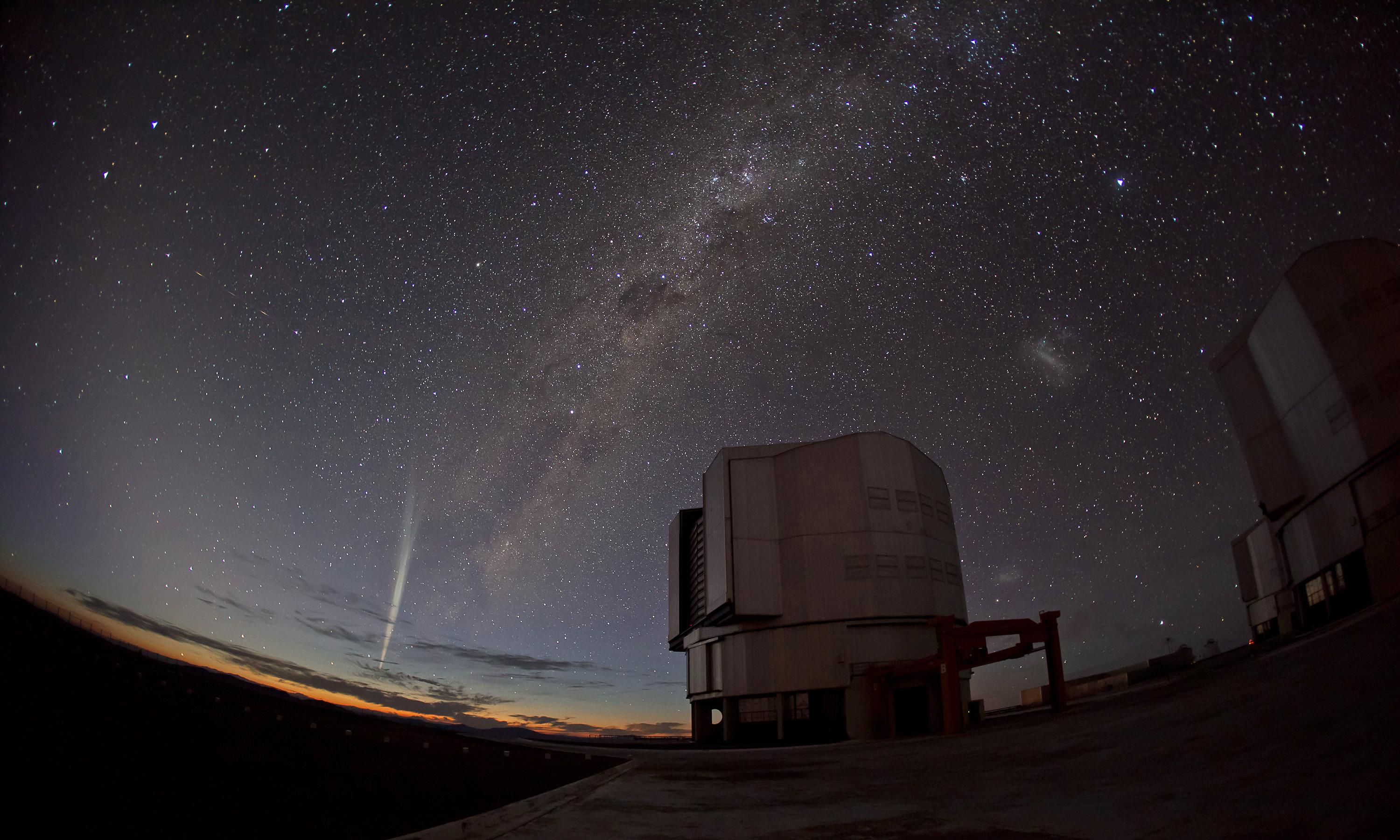 ESO optician Guillaume Blanchard captured this marvellous wide-angle photo of Comet Lovejoy just two days ago on 22 December 2011. Comet Lovejoy has been the talk of the astronomy community over the past few weeks. It was first discovered on 27 November by the Australian amateur astronomer Terry Lovejoy and was classified as a Kreutz sungrazer, with its orbit taking it very close to the Sun, passing a mere 140,000 kilometres from the Sun's surface. In this photo, Comet Lovejoy is photographed at Paranal Observatory, and its tail stretch about 20 degrees above the horizon. Two units of ESO's Very Large Telescope are visible, with the Large and Small Magellanic Clouds visible to the right of the center VLT unit.